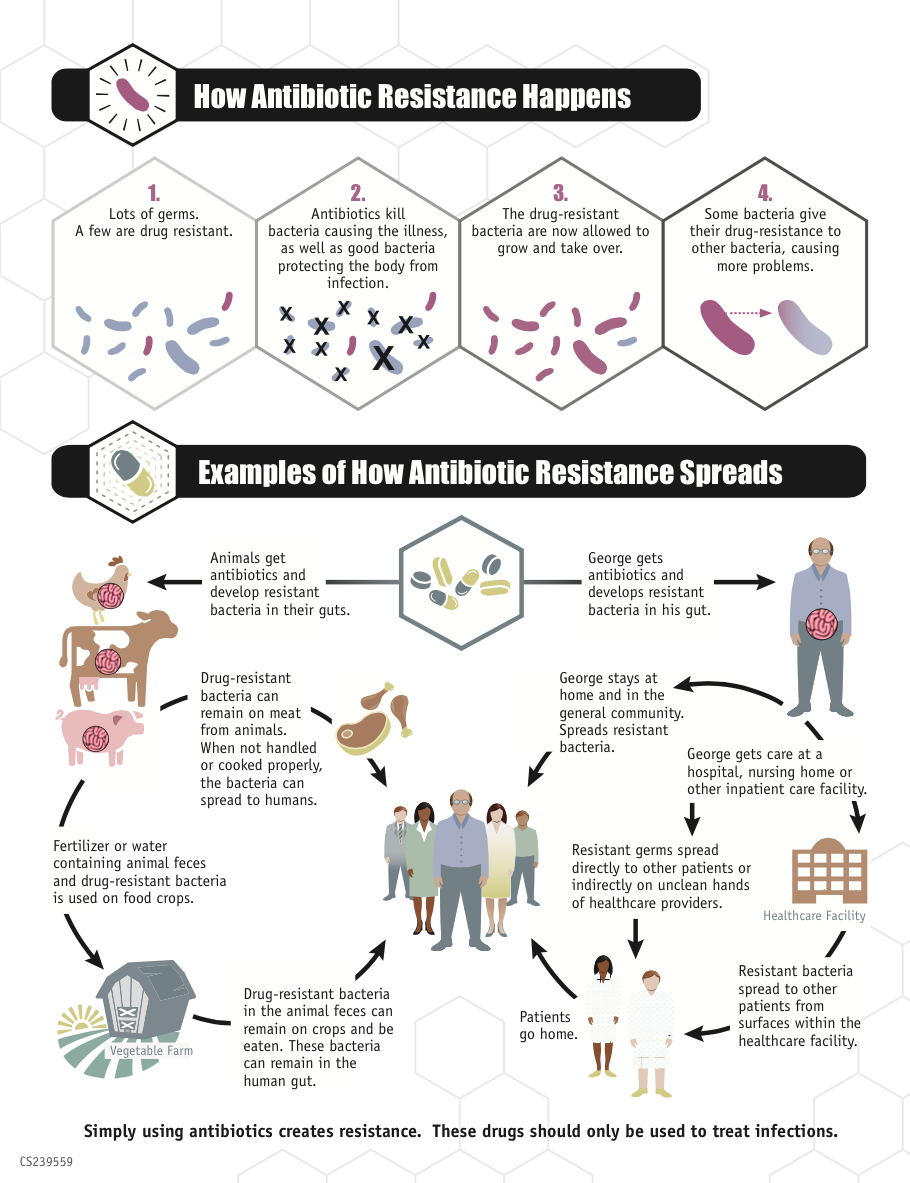 Infographic from the CDC Threat Report 2013, Antibiotic resistance threats in the United States, 2013 (